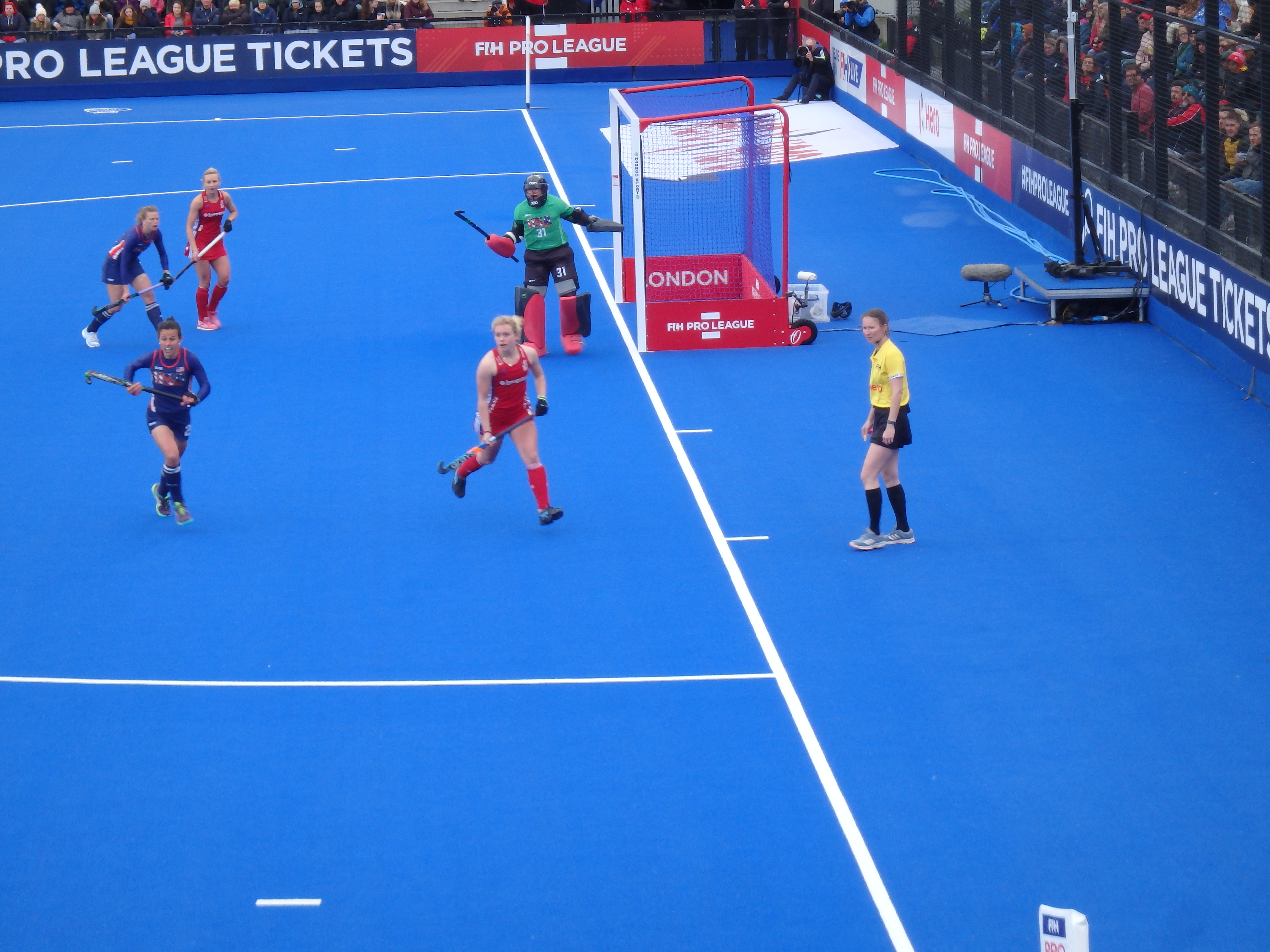 Michelle Meister umpiring an Great Britain vs USA FIH Pro League match in 2019 at the Lee Valley Hockey and Tennis Centre.